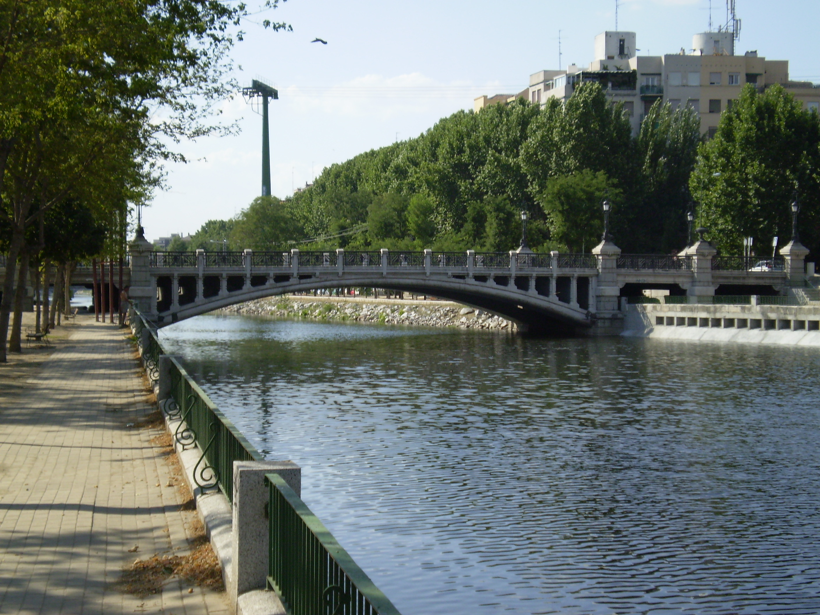 Puente de la Reina Victoria ("Queen Victoria Bridge") over Manzanares River in Madrid (Spain). Projected in 1907 by engineer José Eugenio Ribera Dutaste and architect Julio Martínez-Zapata Rodríguez, and built from 1908 to 1909. It was inaugurated in honour of Queen Victoria Eugenie of Battenberg.